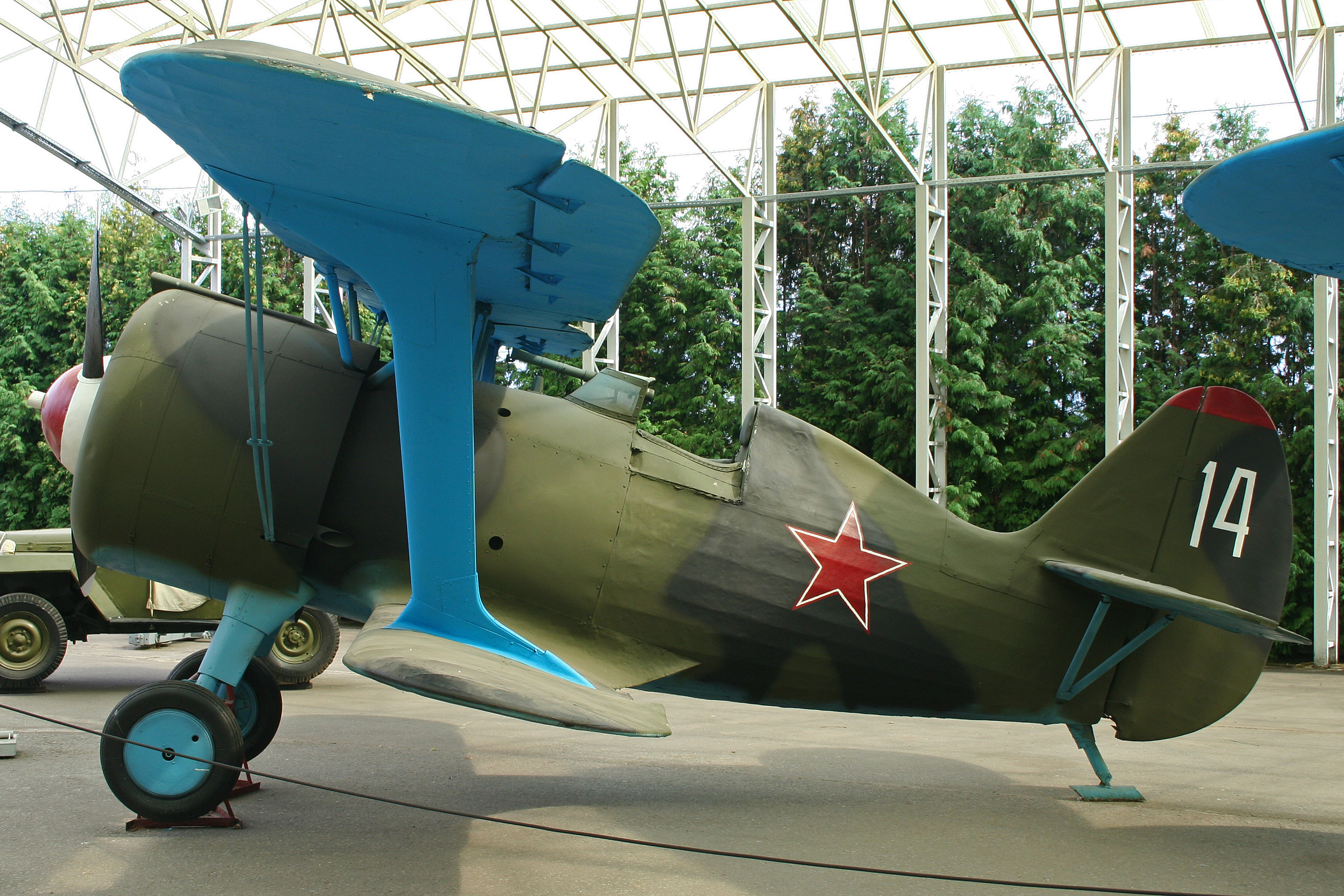 On display at the Museum of the Great Patriotic War in Victory Park, Moscow. 11-8-2012